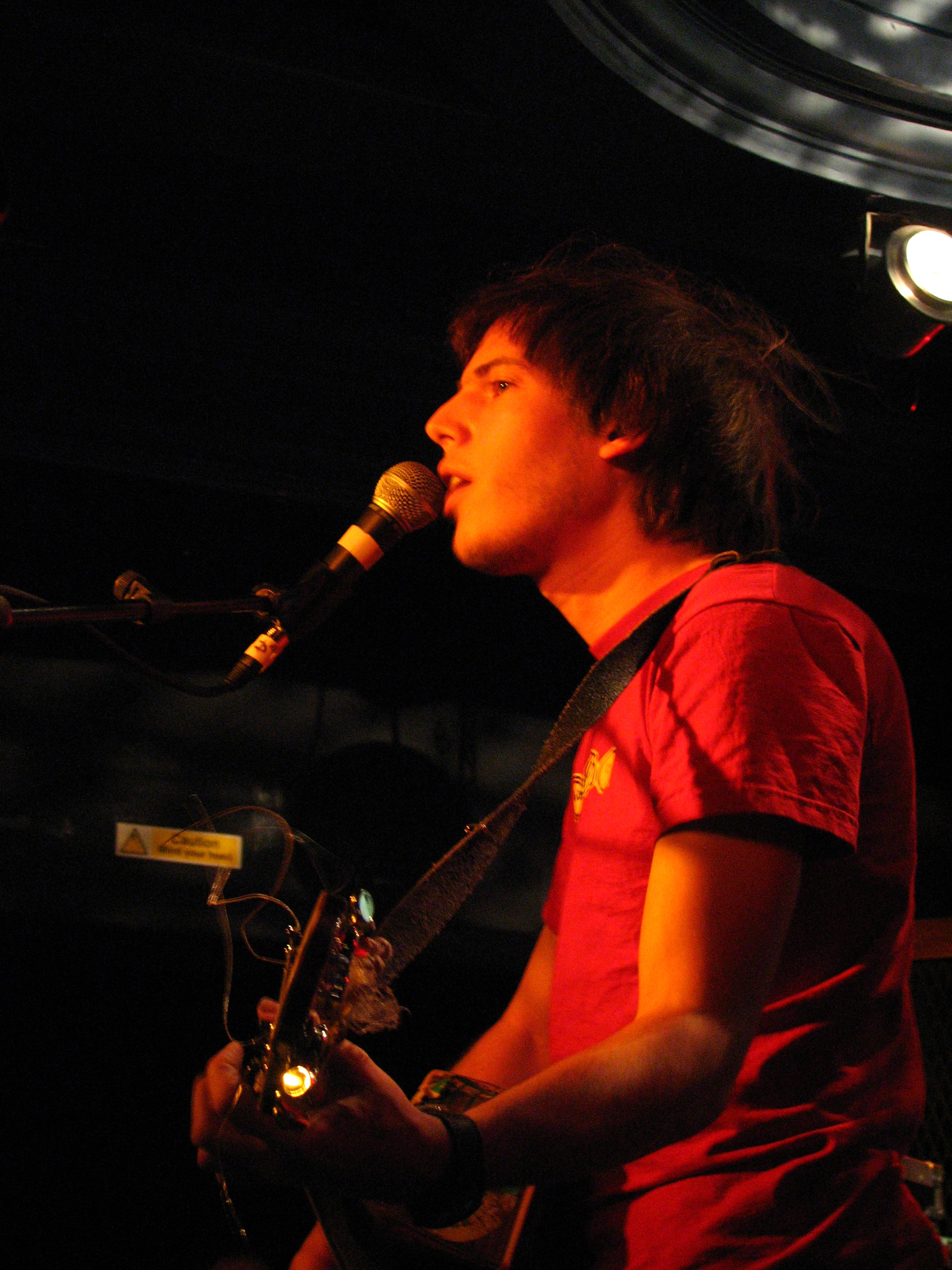 Jeffrey Lewis playing at The Luminaire, London, England